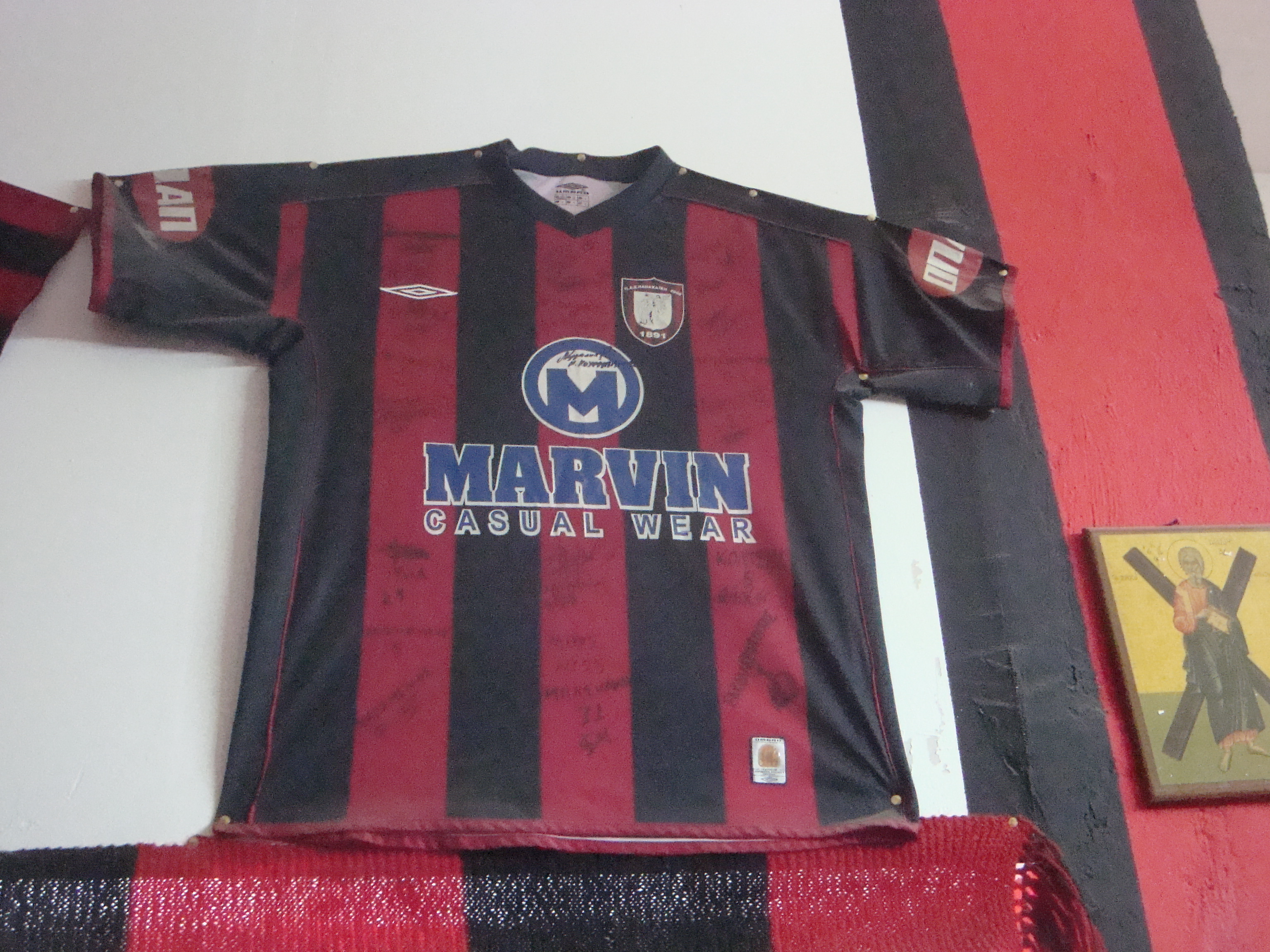 Panachaiki foot ball